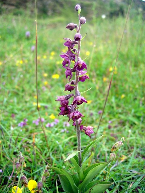 Dark-red Helleborine (Epipactis atrorubens) at Bishop Middleham Quarry The nationally rare Dark Red Helleborine has one of its largest British populations in the quarry now managed as a nature reserve by Durham Wildlife Trust.